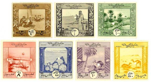 Complete set of mint perforated samples without Waterlow overprint - each stamp has a small punched hole.